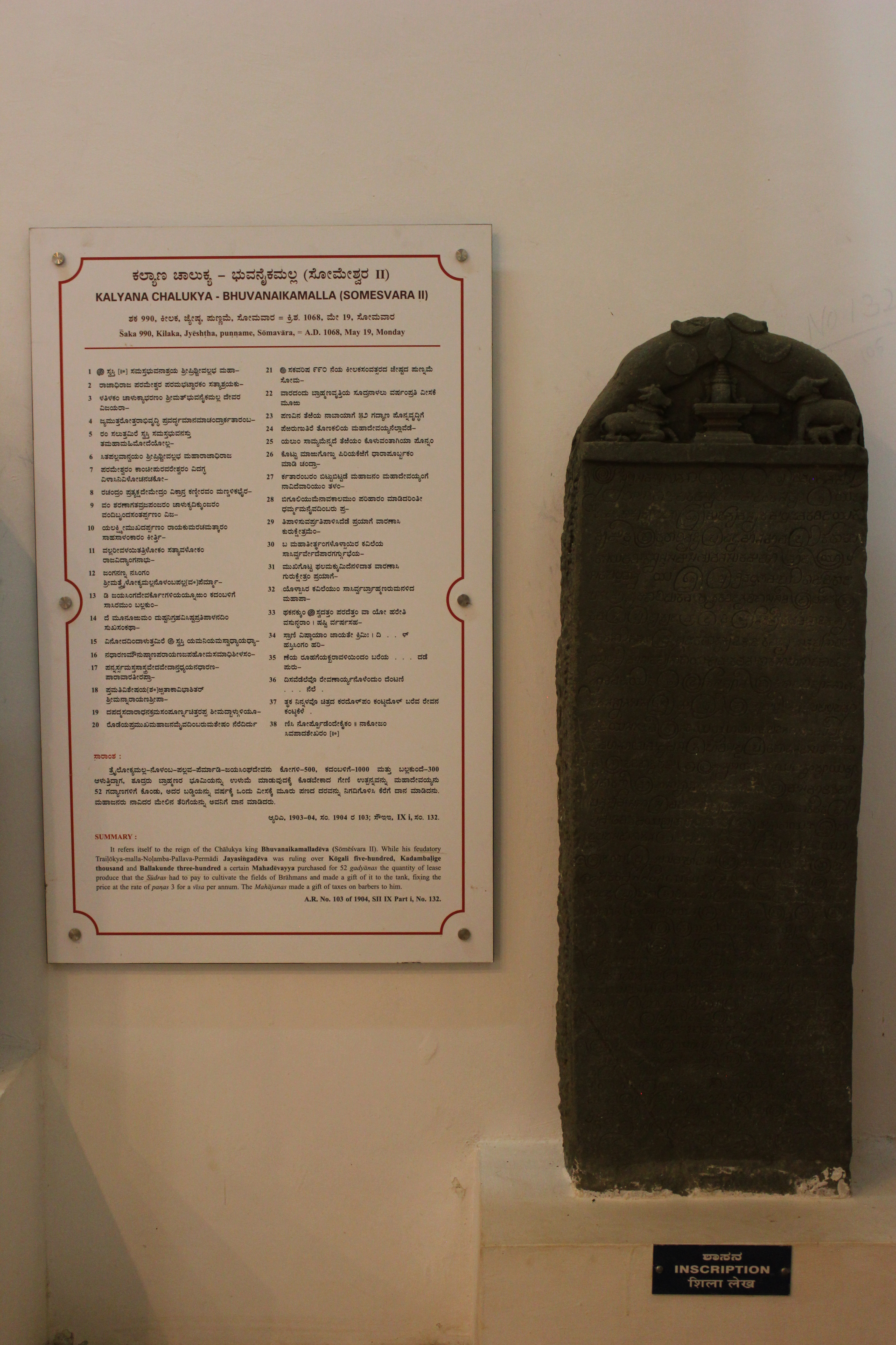 This photograph was taken by me at the ASI museum at Bagali (known as Balgali in ancient inscriptions), Davangere district, Karnataka state, India.